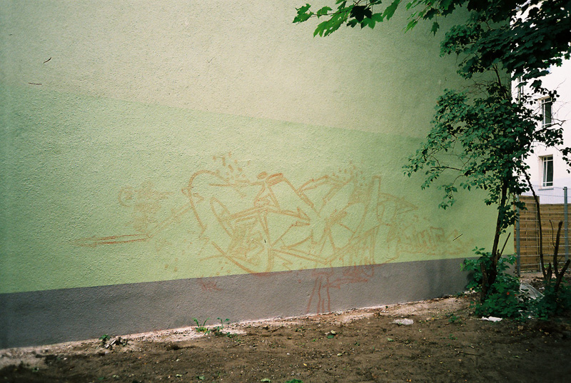 ghostpiece, graffiti after buff, berlin